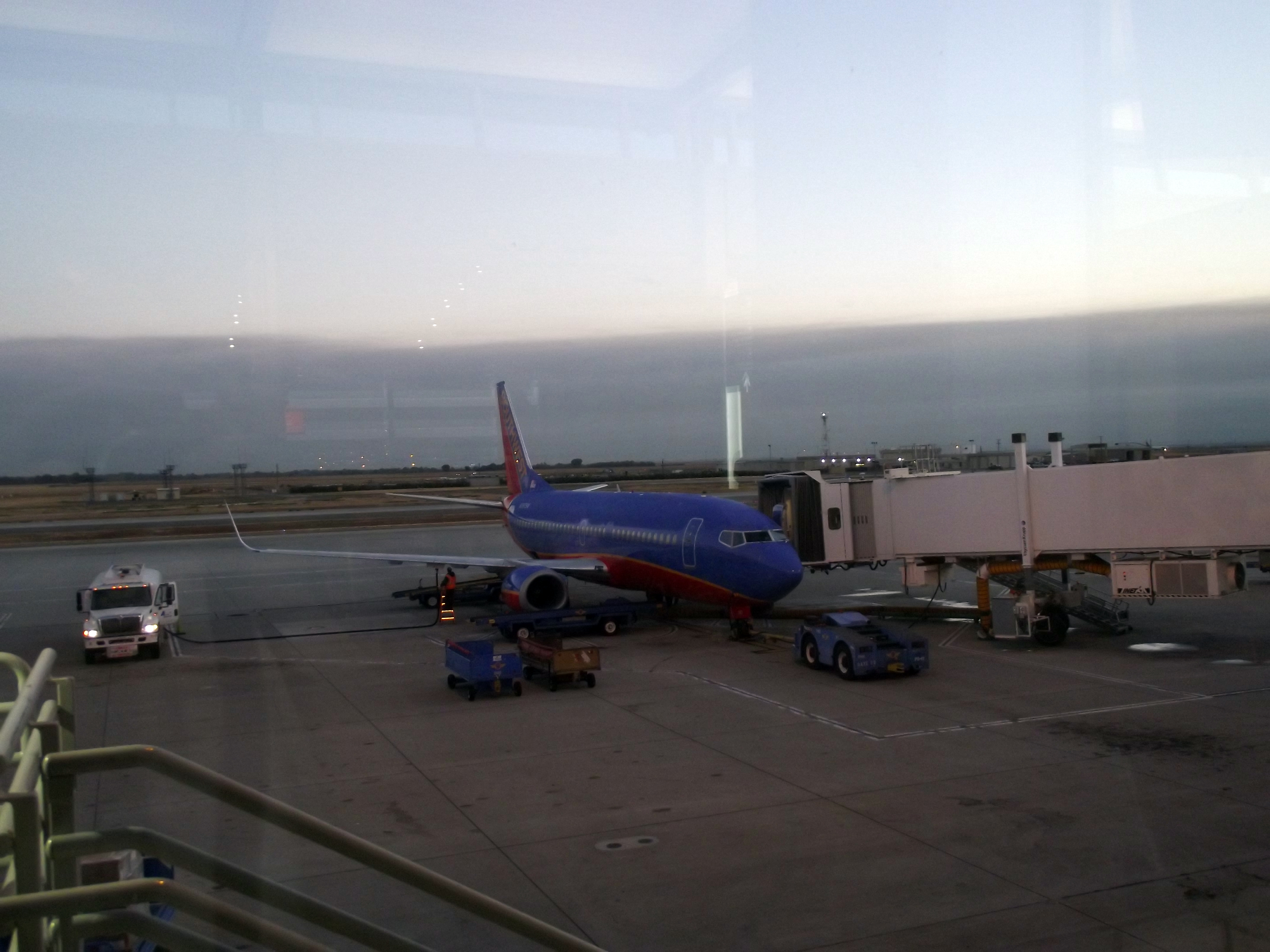 Sacramento International Airport. Southwest Airlines plane